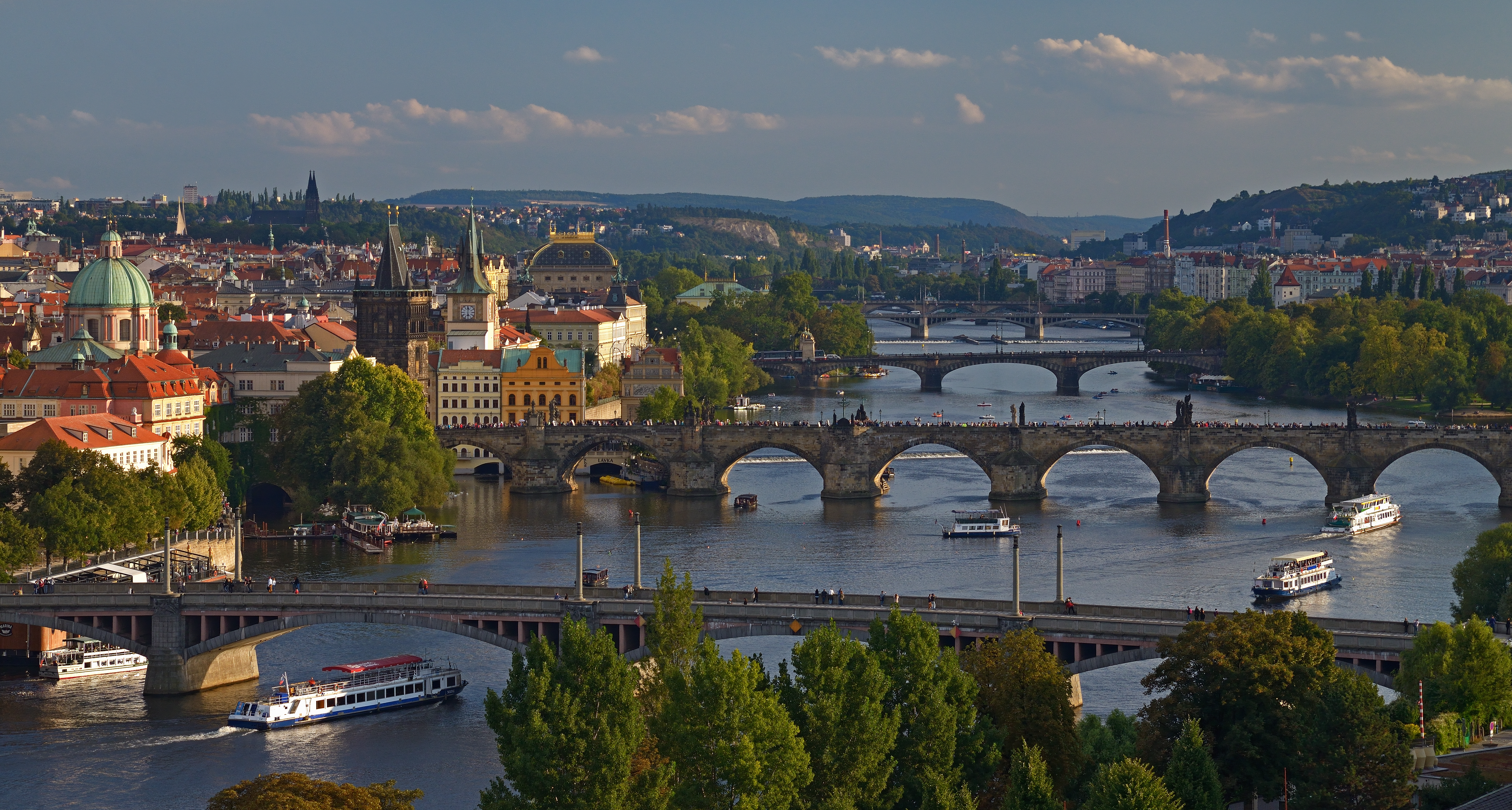 Vltava in Prague at sunset